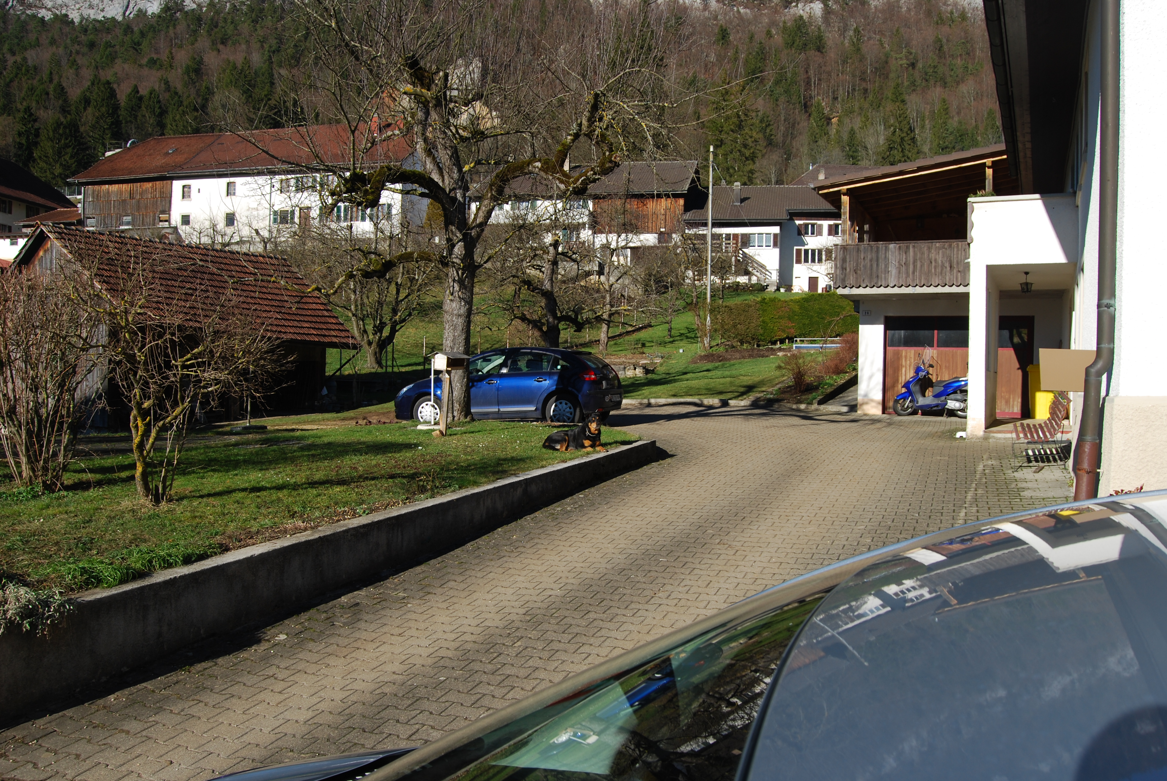 Belprahon, canton of Bern, SwitzerlandEsperanto: Belprahon, Kantono Berno, Svislando